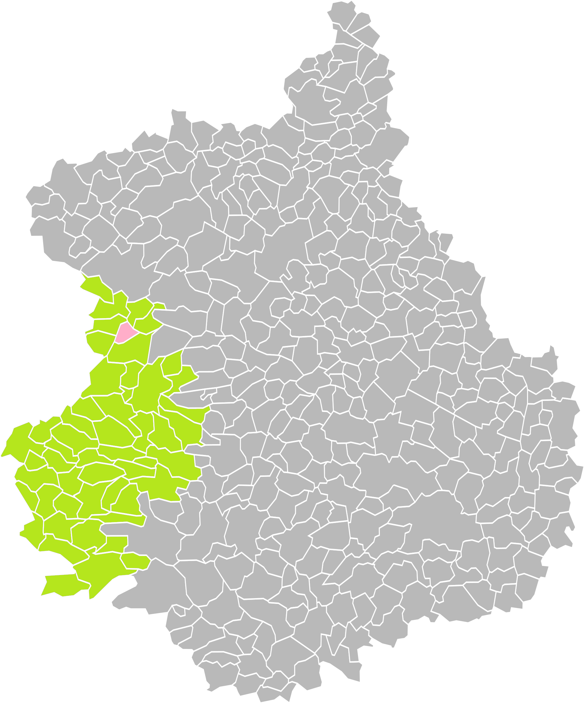 Location of the commune of La Loupe in the arrondissement of Nogent-le-Rotrou (Eure-et-Loir)